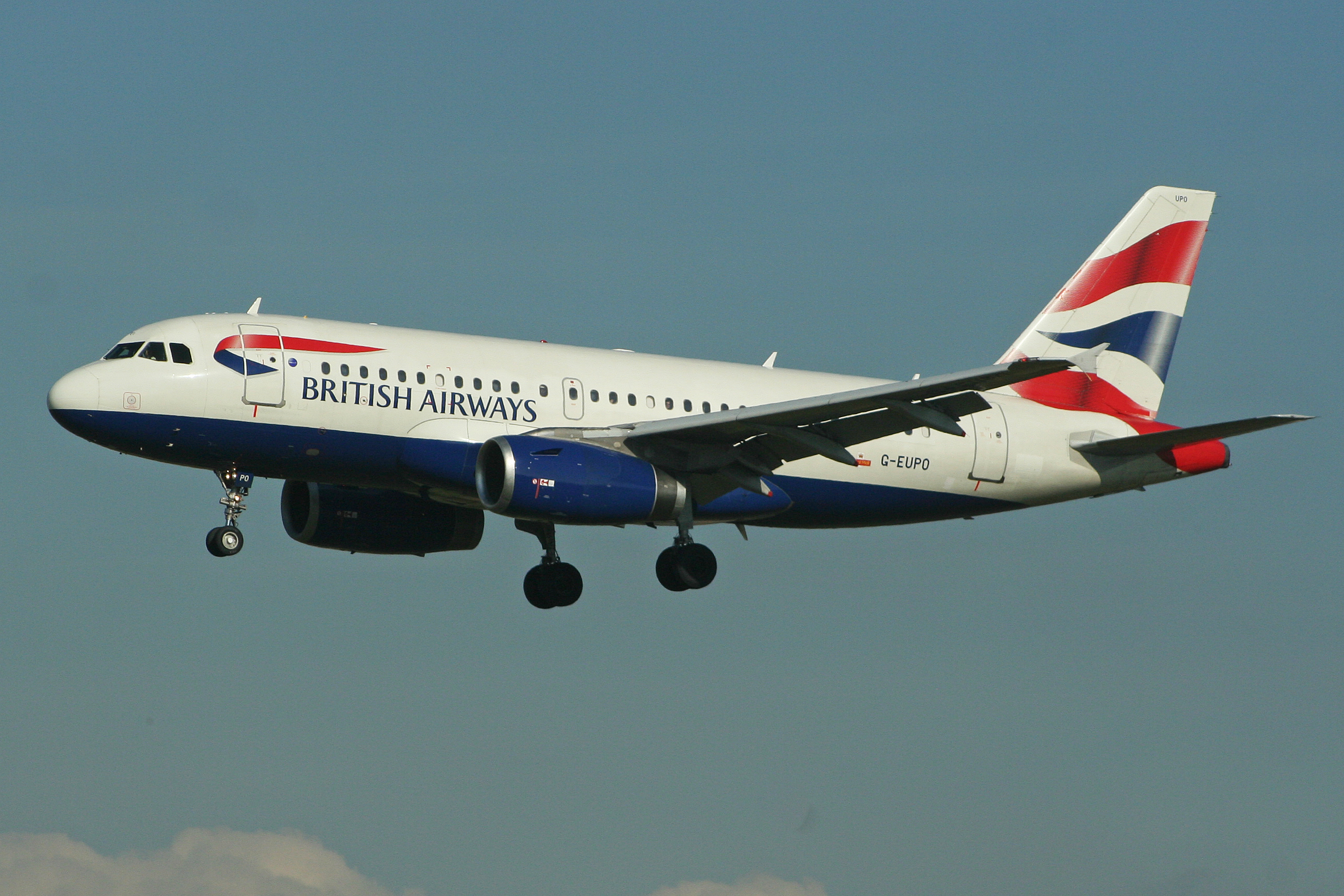 msn 1279. Arriving on flight BA565/62NL from Milan. London Heathrow. 27-2-2012